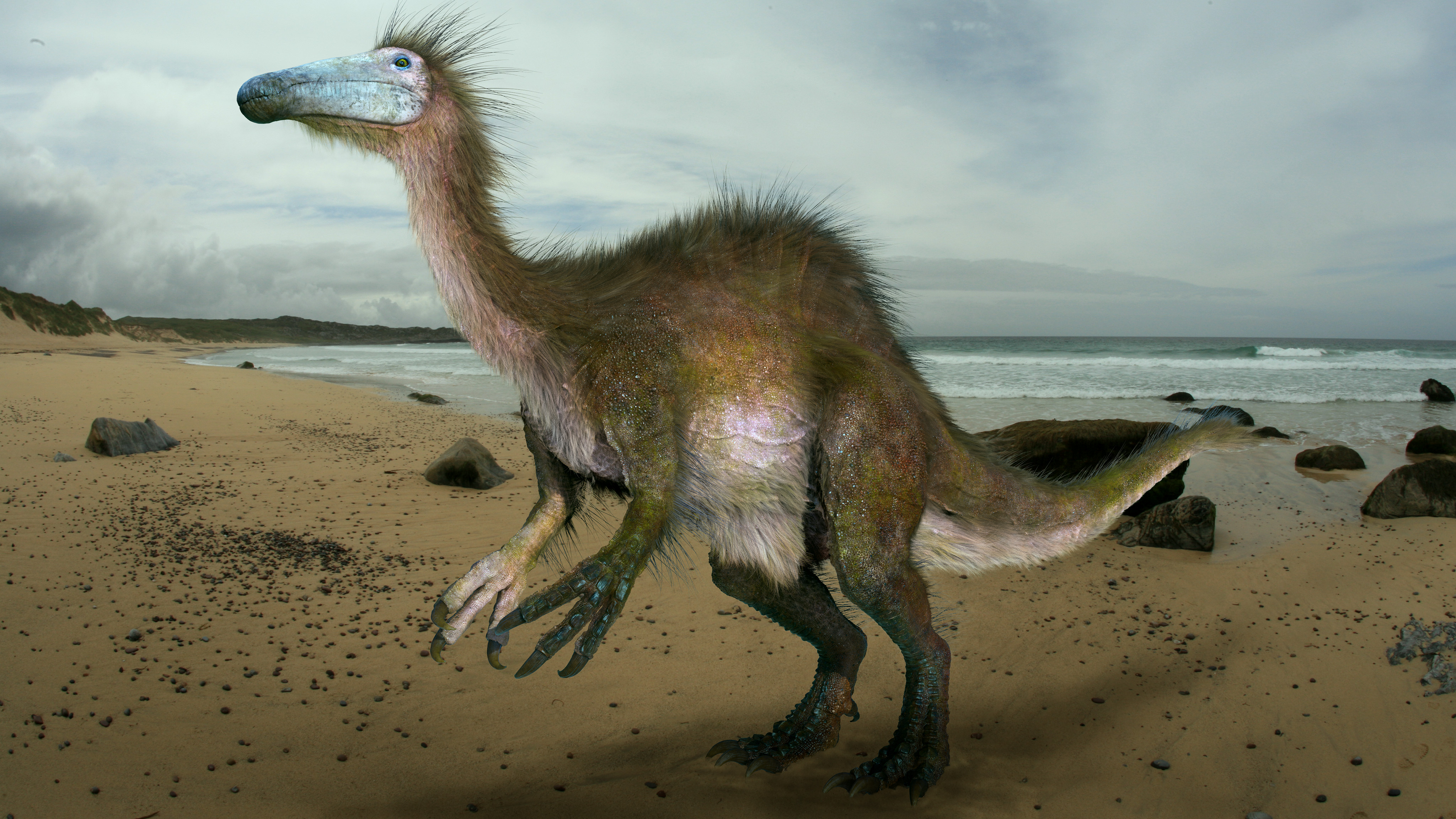 Life restoration of Deinocheirus